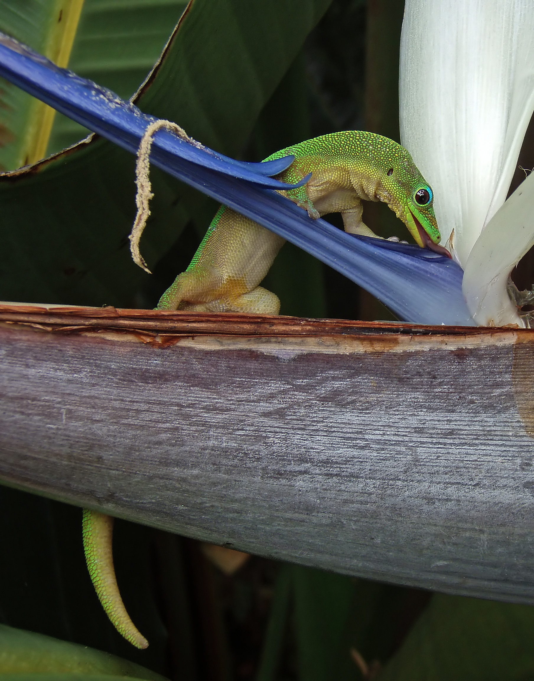 Gold dust day gecko licking nectar from Bird of Paradise flower. The image was taken at Kona, Hawaii.